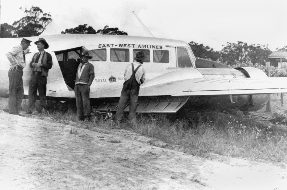 5 December, 1950, an East-West Airlines Avro Anson crashed in Pozieres, in the Southern Downs Region, Queensland, Australia.